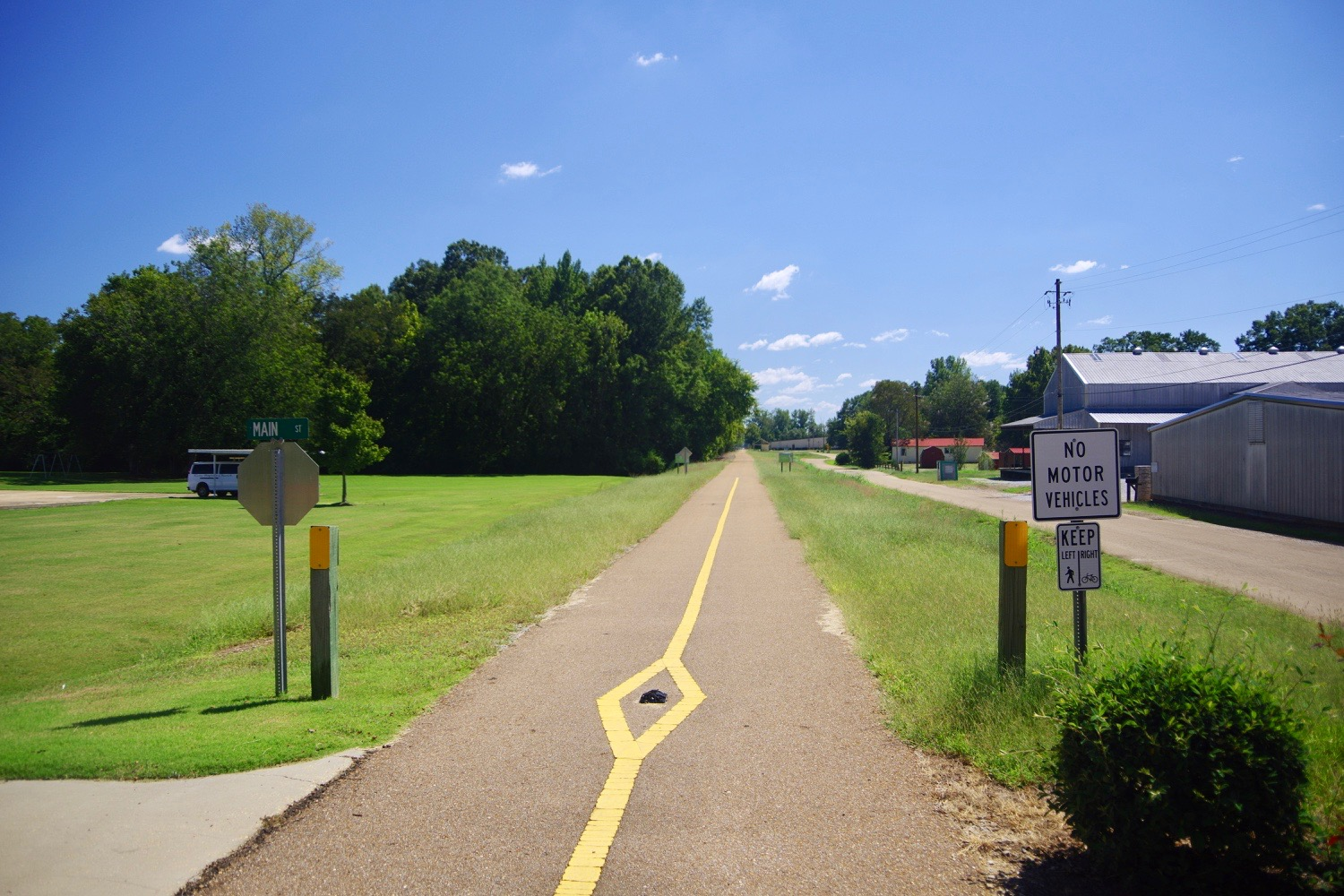 The Tanglefoot Trail in Ecru, Mississippi, United States.